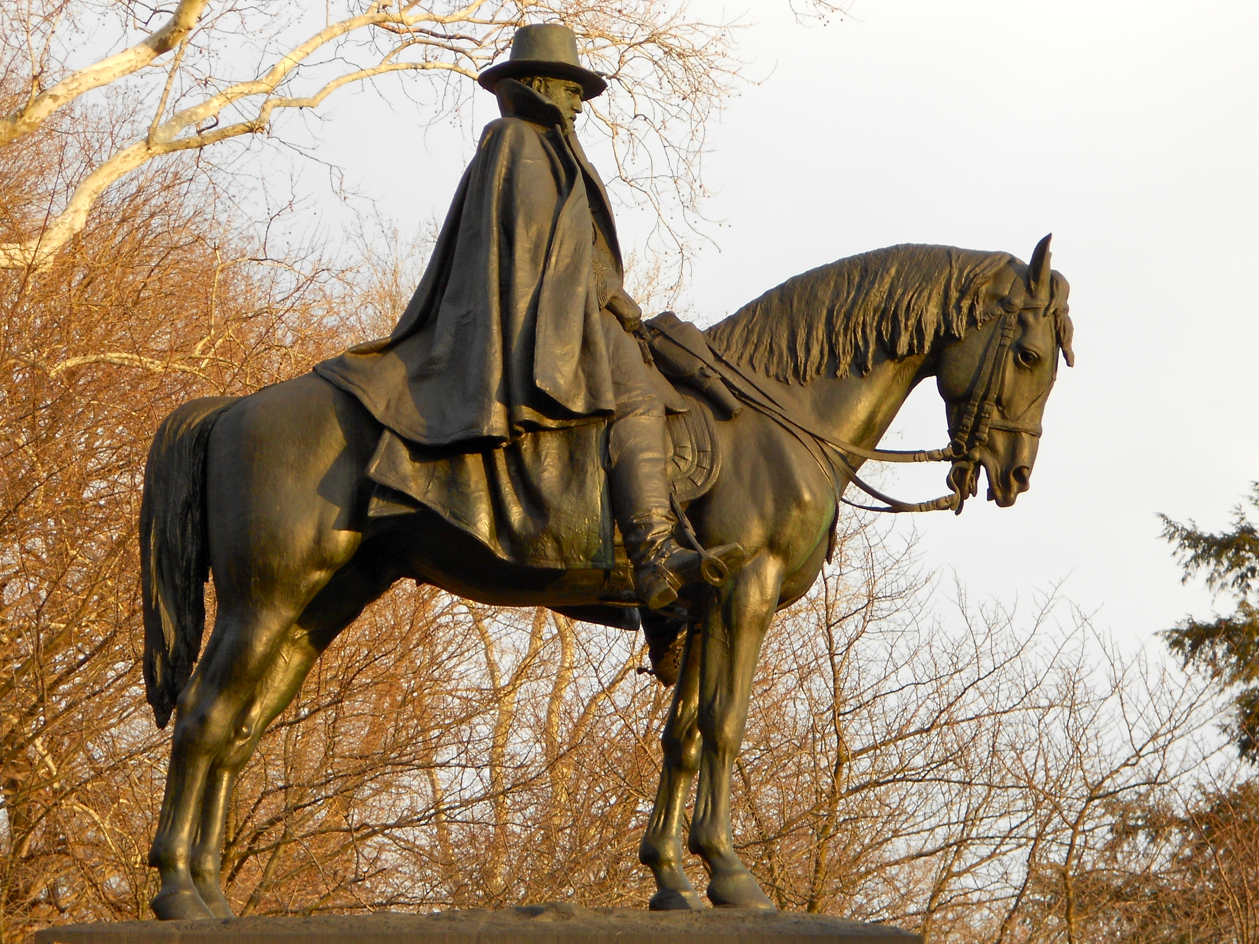 Sculpture of General Ulysses S. Grant by Daniel Chester French, dated 1898, on Kelly Drive (East River Road) Bronze, 174 inches in height. Owned by City of Philadelphia.